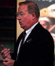 COL Bruce Clarke addressing a group of telecom executives on the threat posed by terrorism